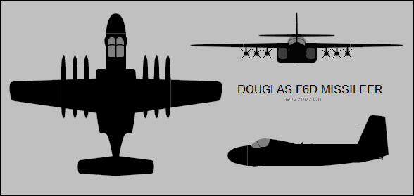 Three-view silhouette of the Douglas F6D Missileer